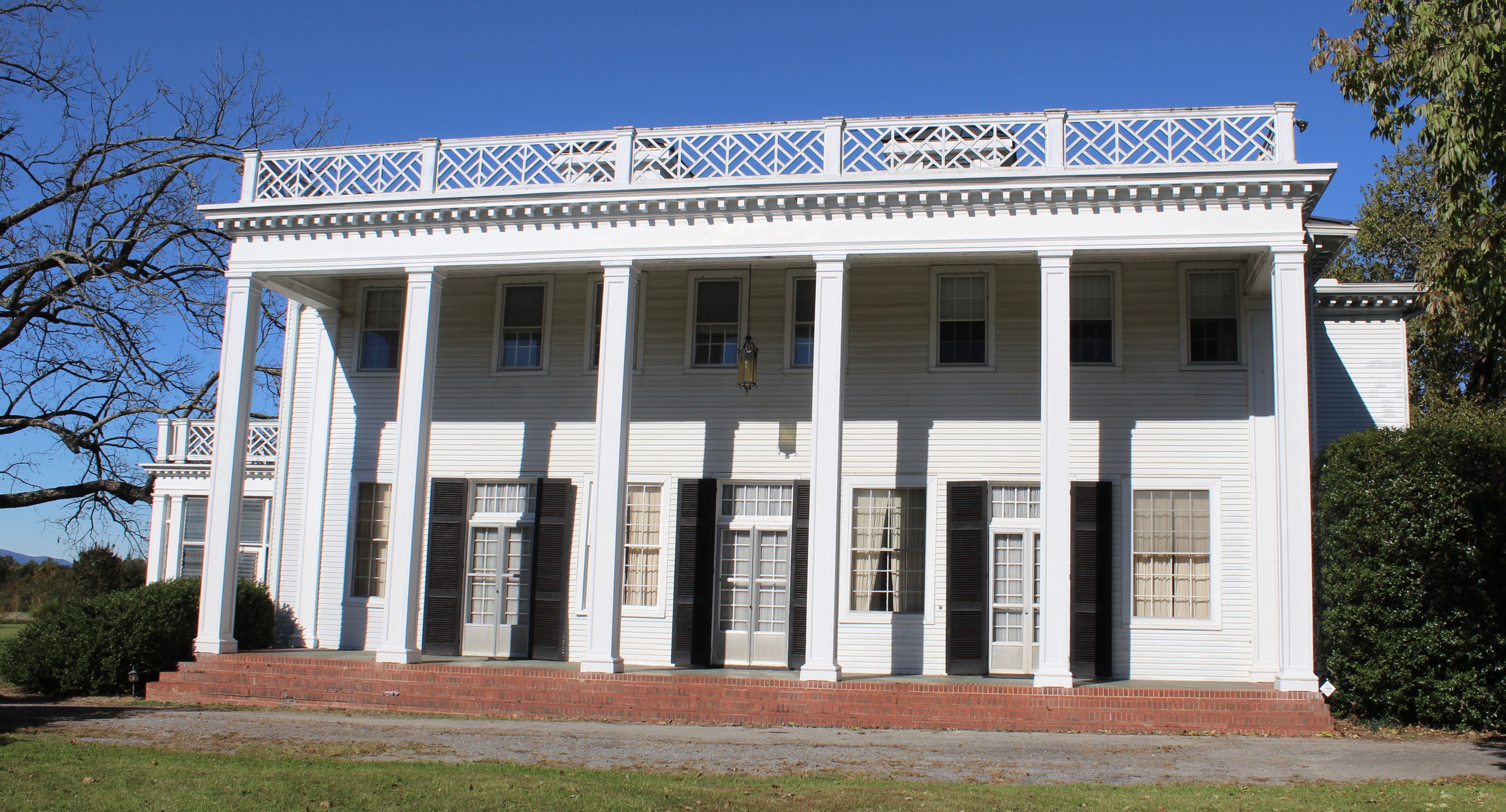 This photo shows the front exterior of the Bedford Alum Springs Hotel